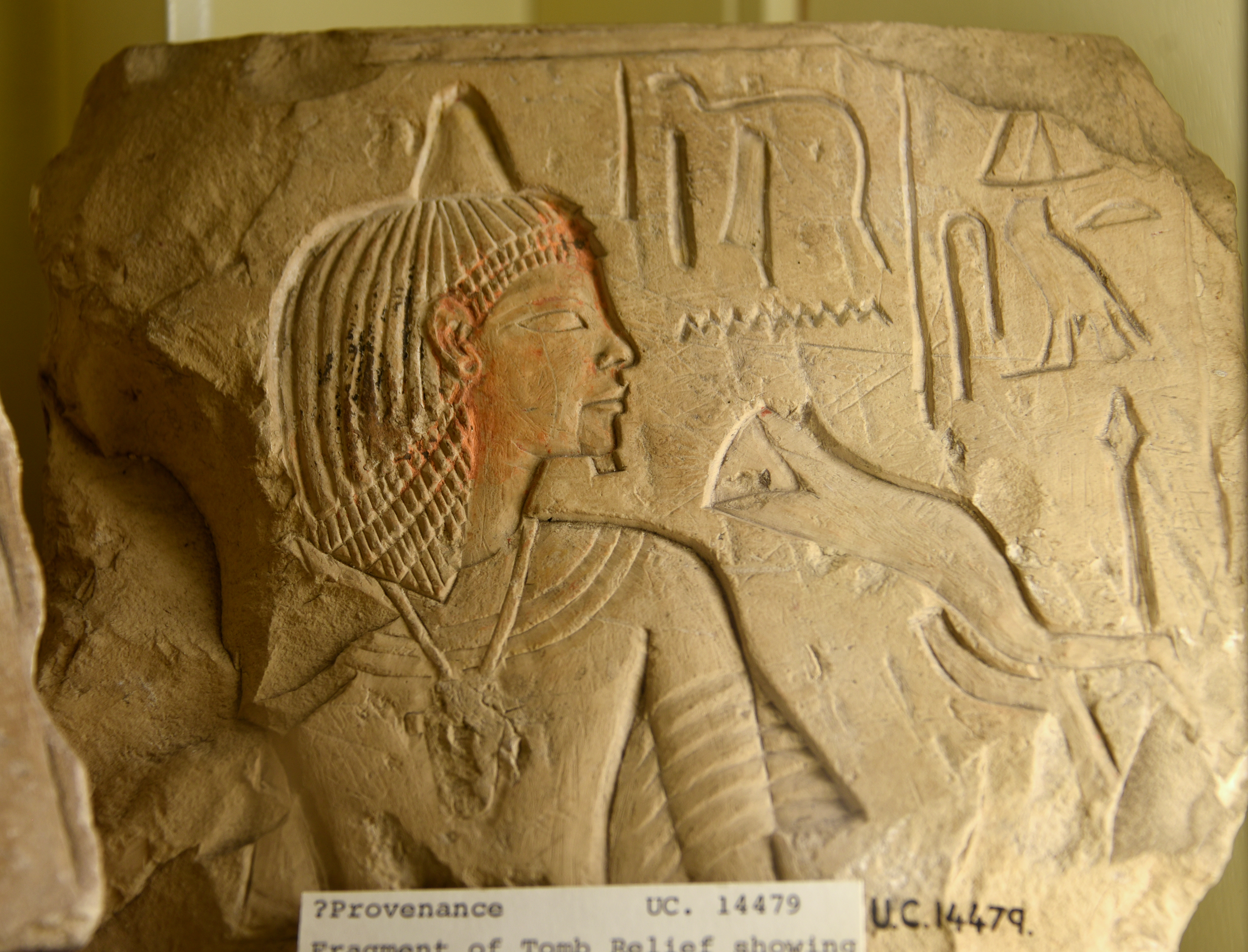 Fragment of a tomb relief showing a funerary ritual scene. It depicts meat-offering of the "opening of the mouth ceremony". Late 18th Dynasty. From Egypt. The Petrie Museum of Egyptian Archaeology, London. With thanks to the Petrie Museum of Egyptian Archaeology, UCL.